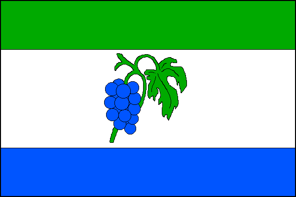 Flag of the municipal corporation Starý Hrozenkov (Czech Republik)